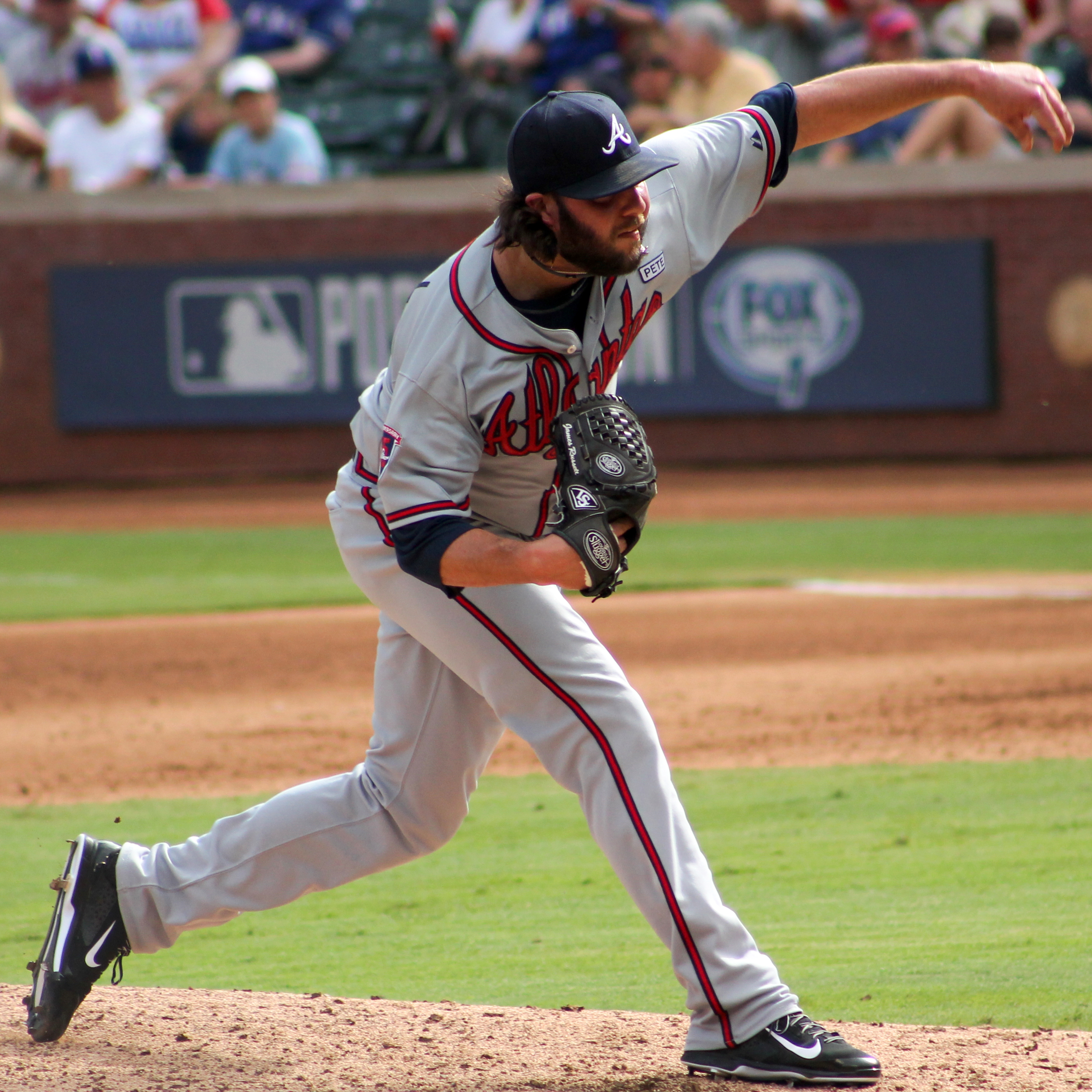 Professional baseball player James Russell pitches in a September 2014 in Arlington against the Texas Rangers.